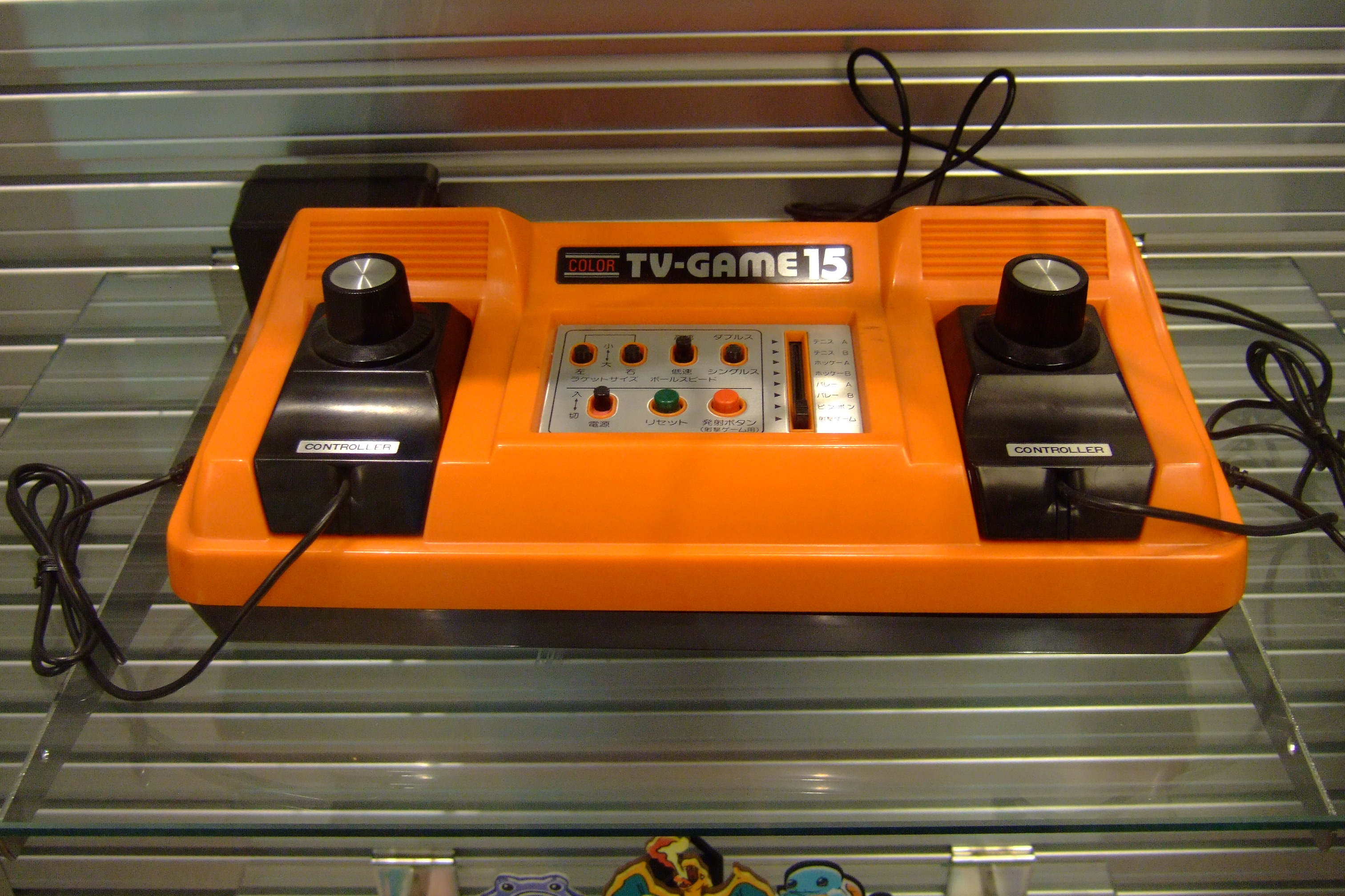 Nintendo Color TV-Game 15 light orange version, at Nintendo customer service center in Seattle. Here the dark orange version: Image:TVGame15.jpg